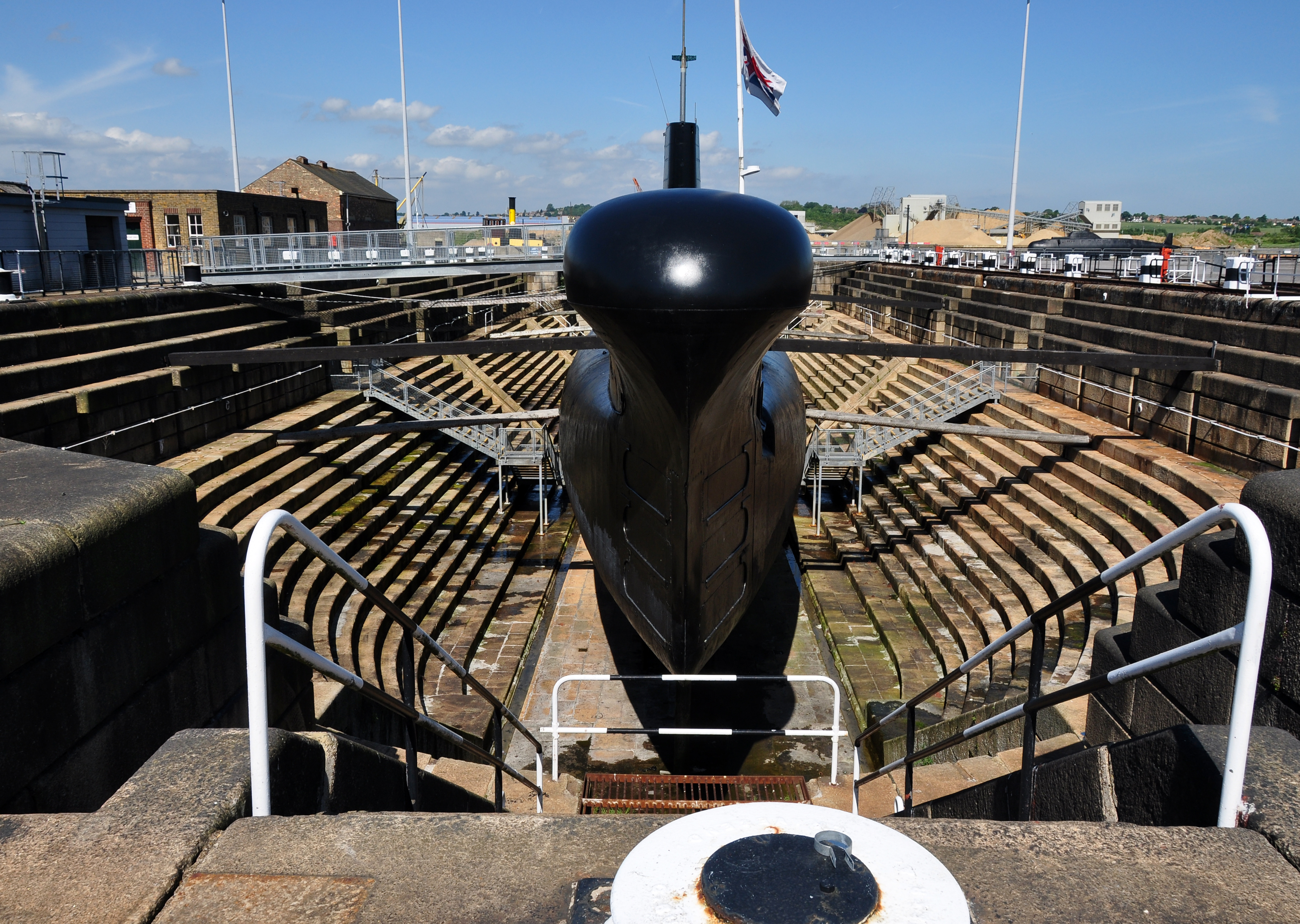 HMS Ocelot at Chatham Dockyard, Kent.